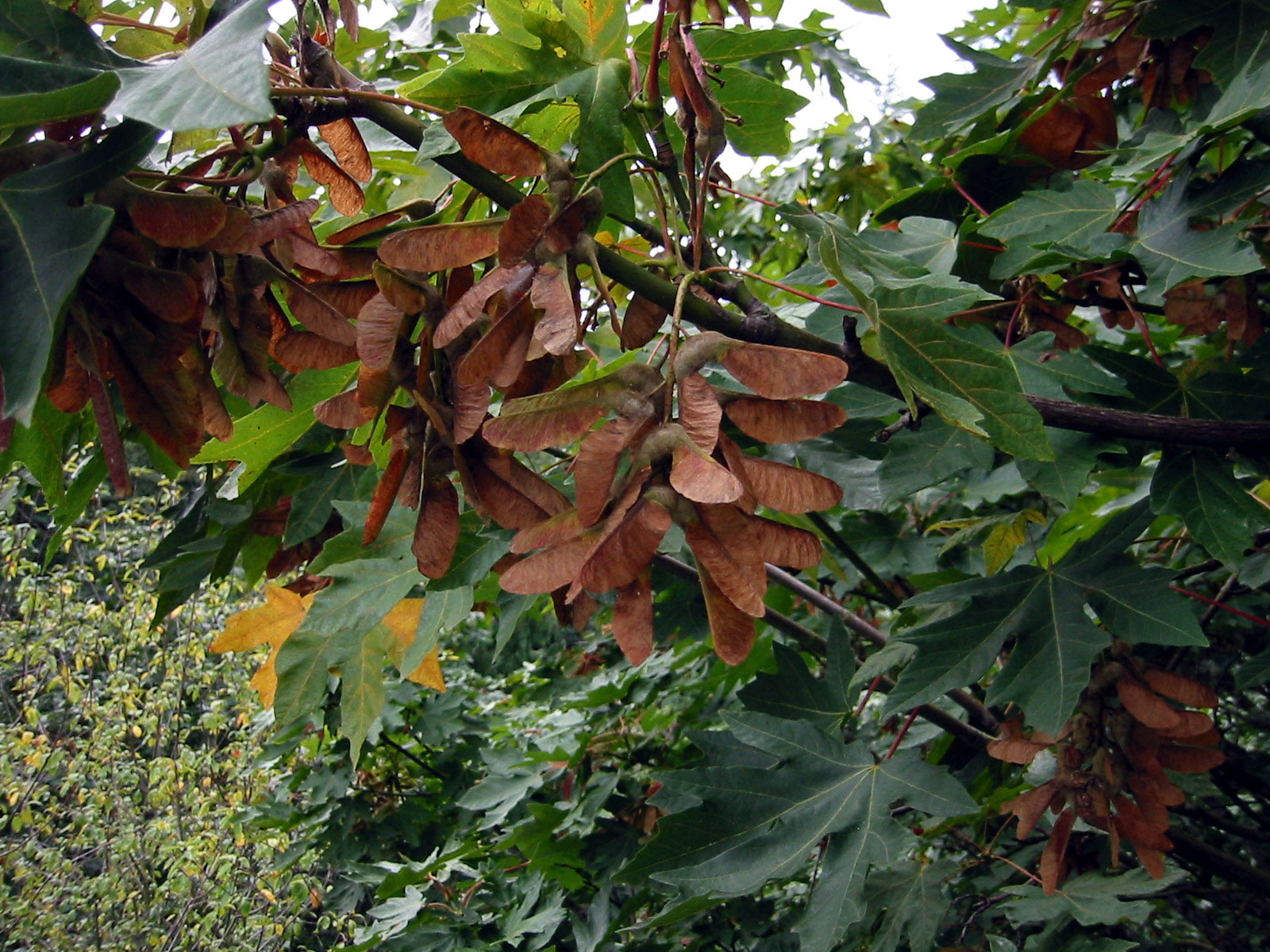 Bigleaf Maple seeds and foliage Description: Bigleaf Maple (Acer macrophyllum) seeds and foliage Viewpoint location: North end of 20th Street Bridge over Ravenna Park, Seattle, Washington, USA. GPS: UTM 10 552067E 5280110N (WGS84/NAD83) USGS Seattle North Quad [1] Viewpoint elevation: 55 m View direction: West Date and time: 2004.09.02 13:18:53 PDT Camera: Canon PowerShot S110 Photographer: Walter Siegmund ©2004 Walter Siegmund